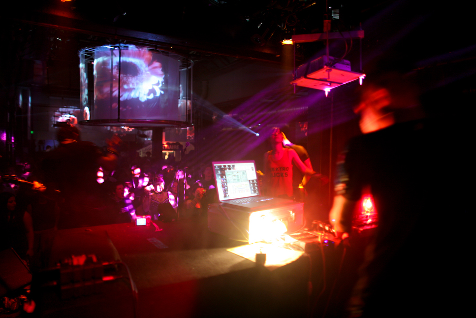 zoo